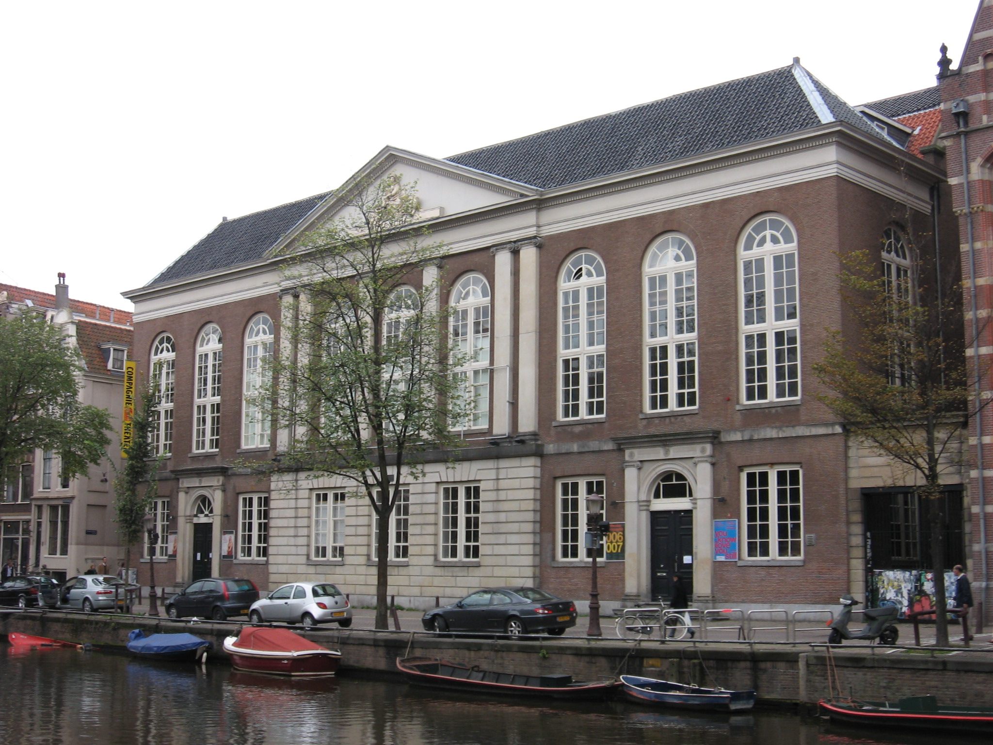 compagnie theater